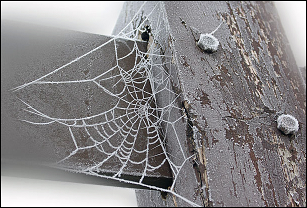 Cobweb - Location: Katwijk, Netherlands